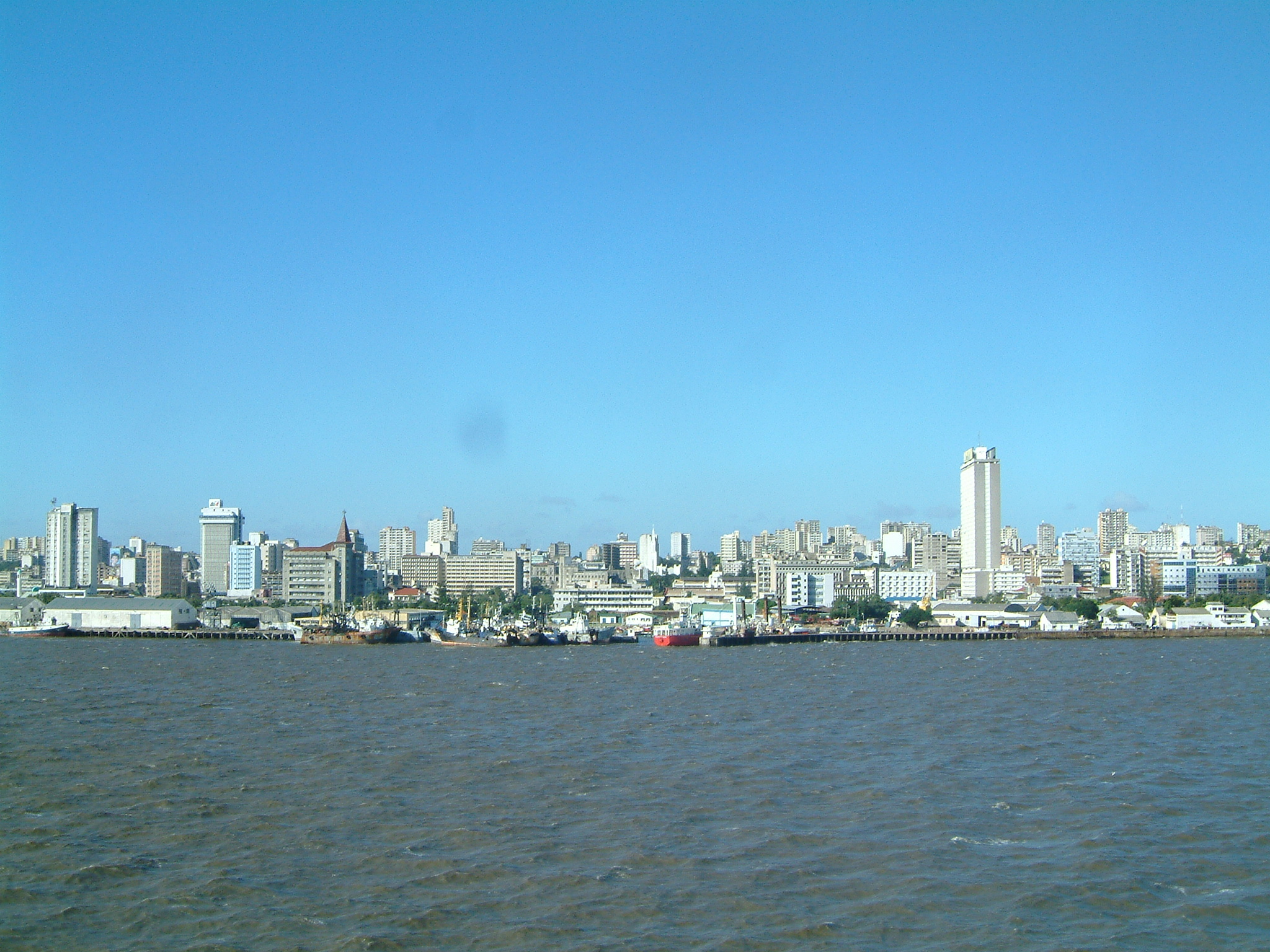 Maputo skyline from cruise ship.